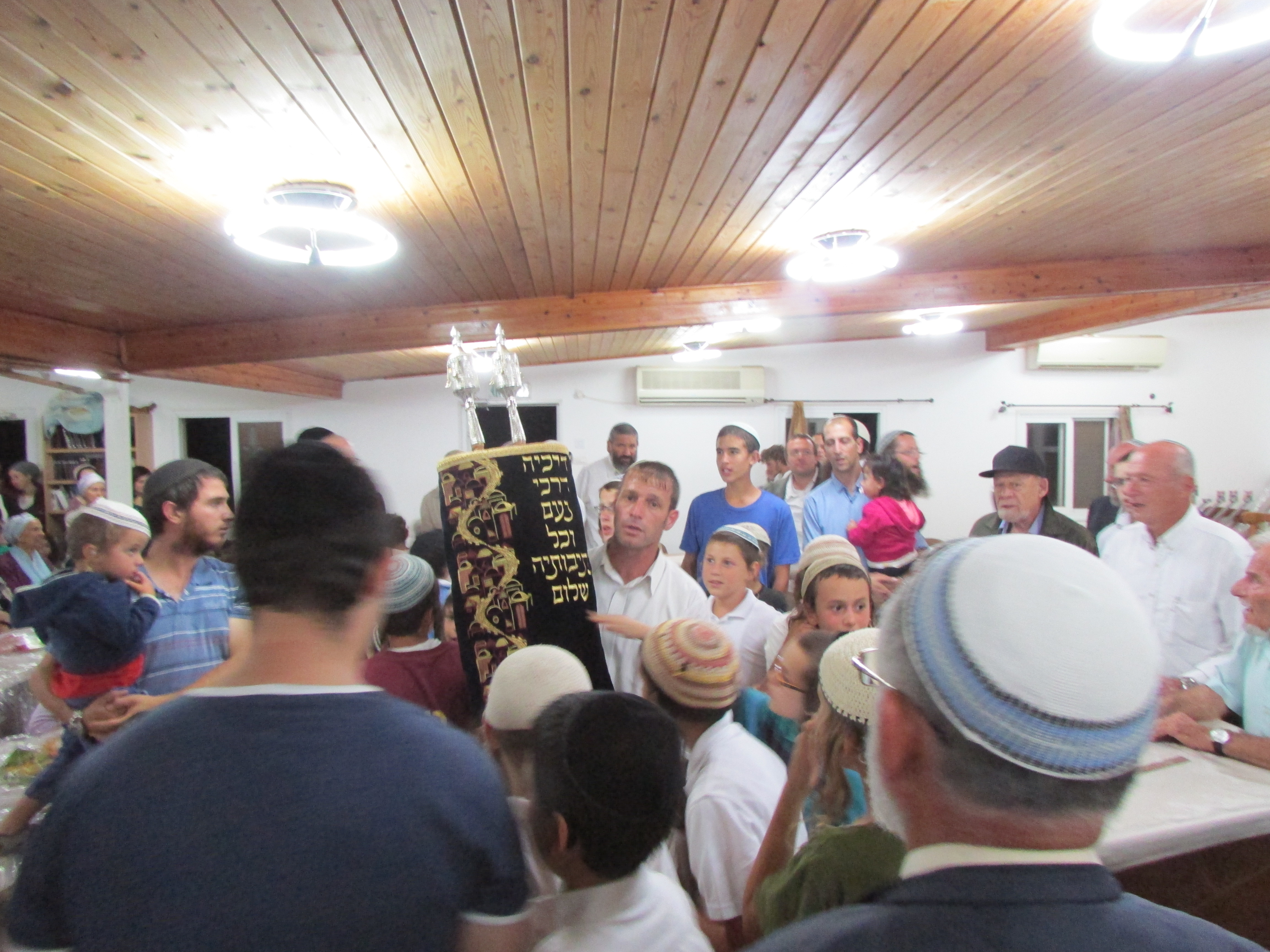 Torah inauguration in Amona